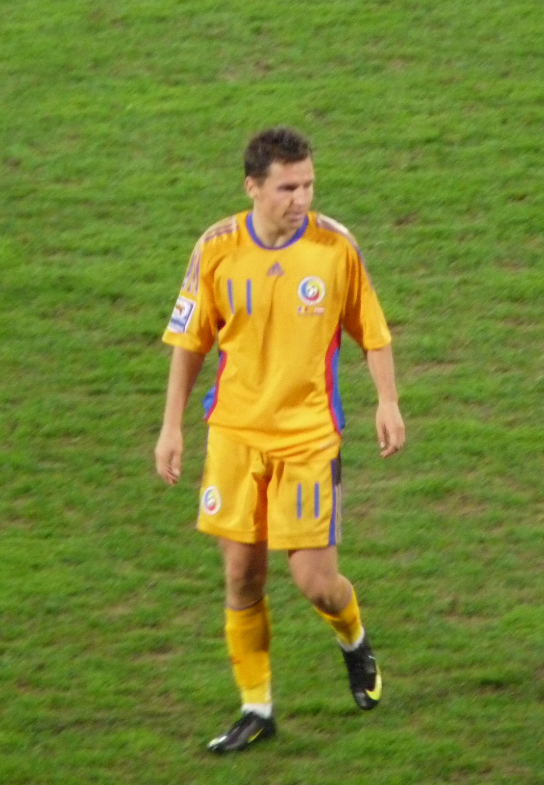 Gheorghe Bucur playing for the national football team of Romania against Austria on the Steaua stadium in Bucharest